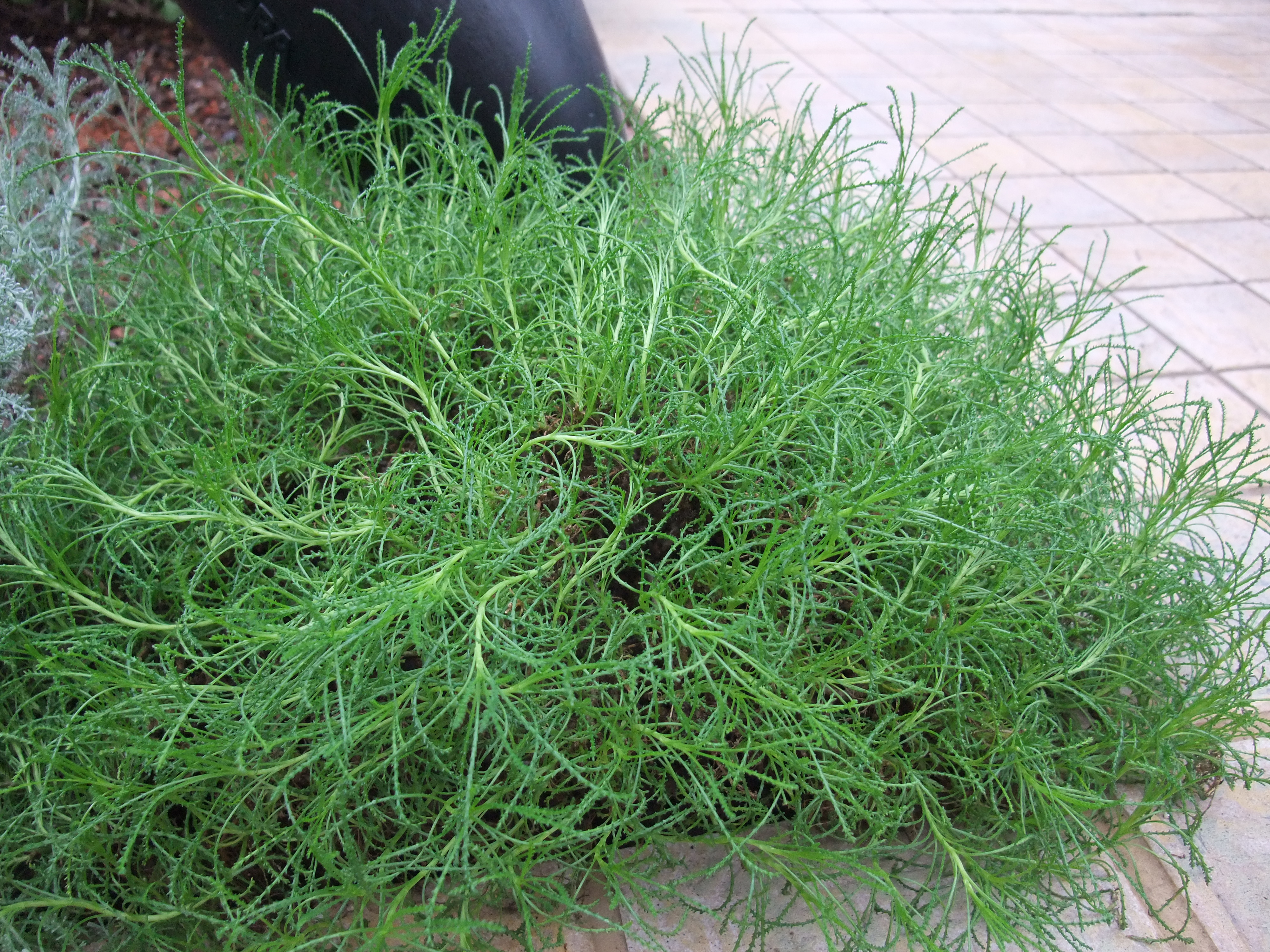 A photograph of Santolina rosmarinifolia.